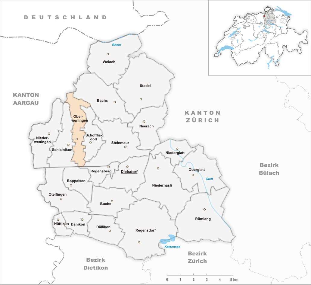 Municipality Oberweningen